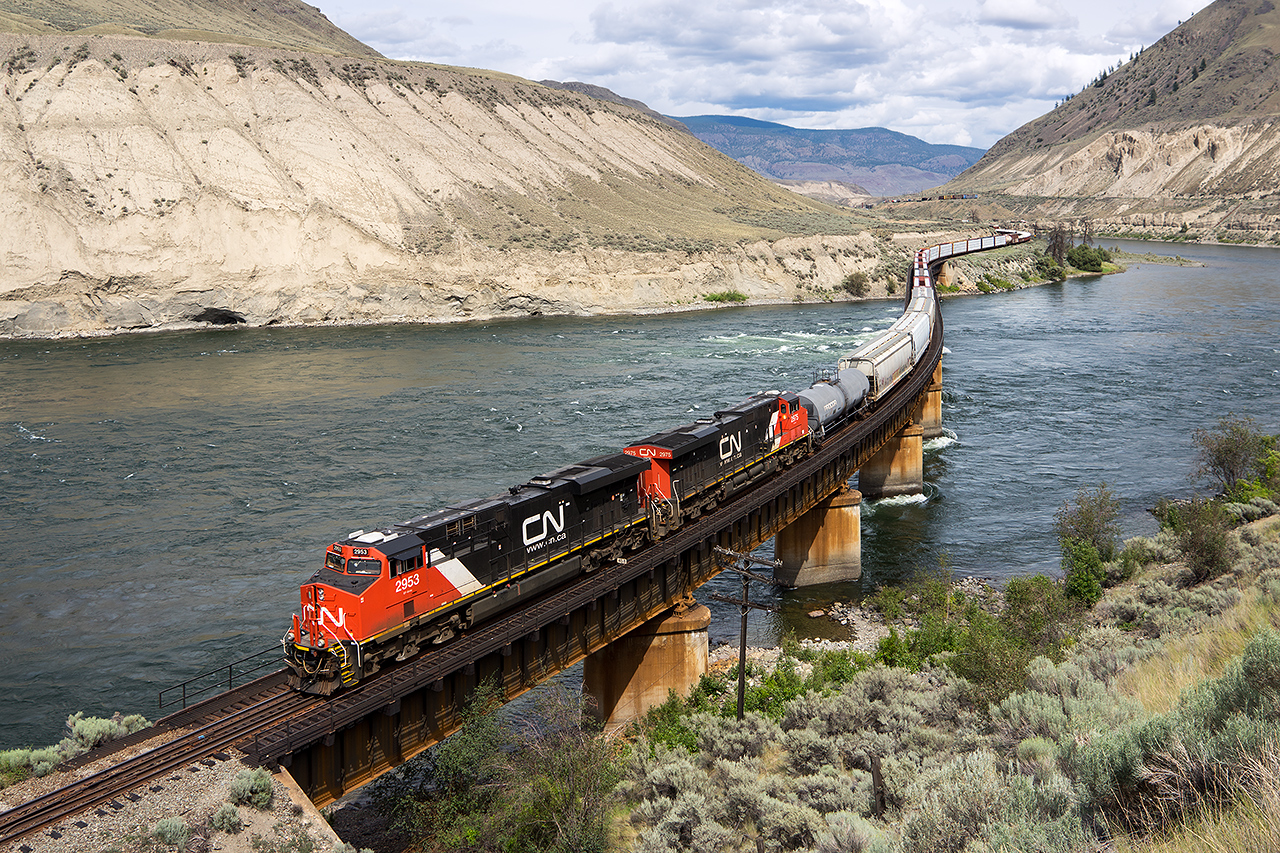 Canadian National, Ashcroft (Canada), 25.06.2016